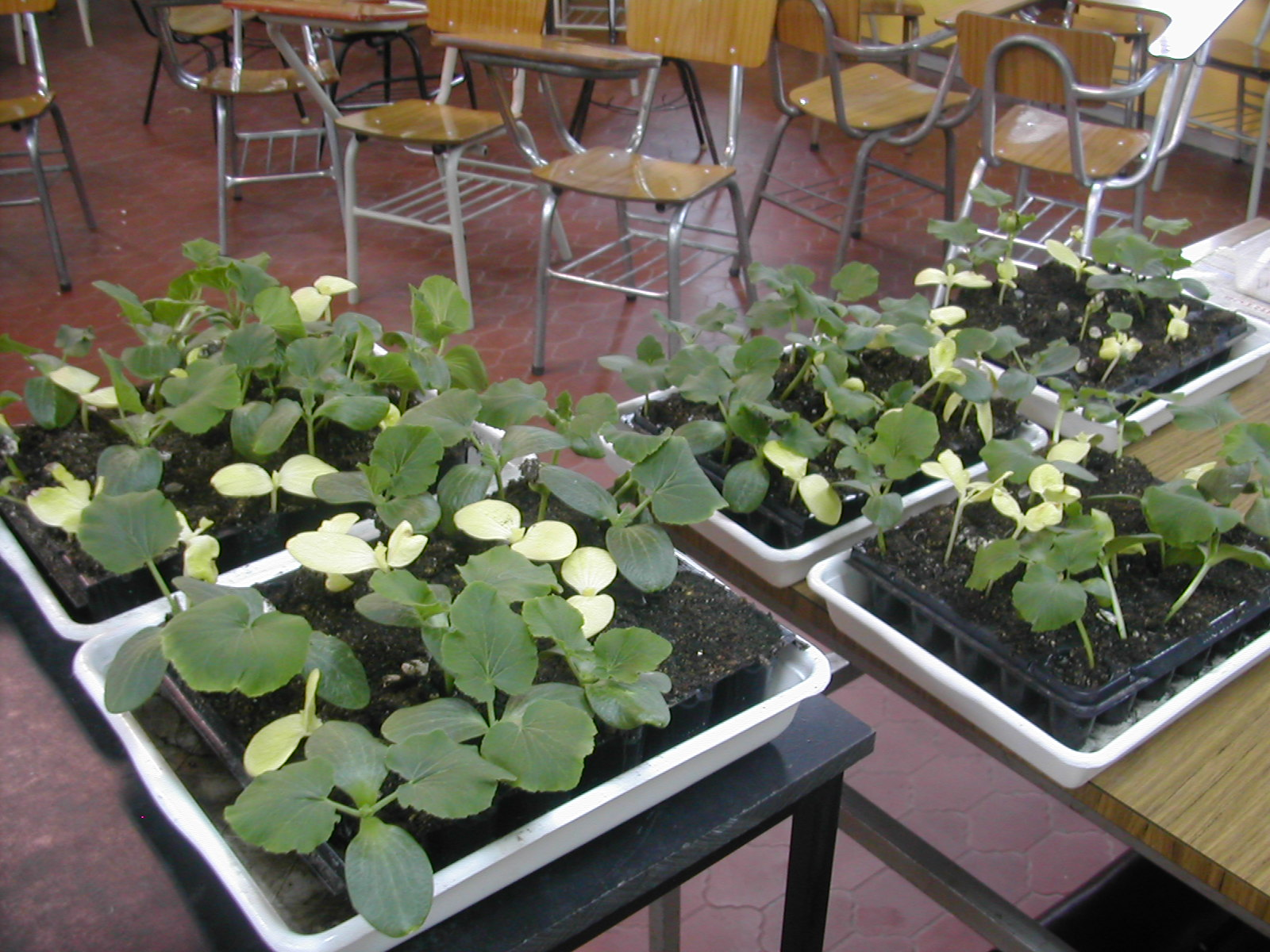 Recessive alelle for yellow seedlings in Cucurbita maxima